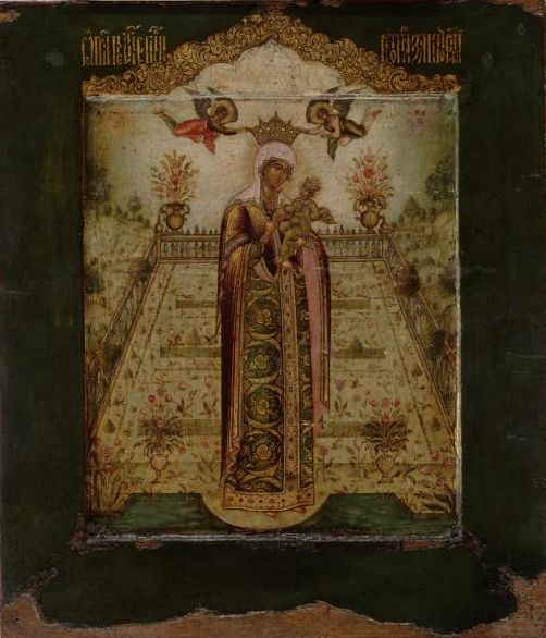 Icon of Our Lady (Theotokos) of a "garden enclosed" type («Вертоград заключенный») (cf. Song of Songs 4:12)